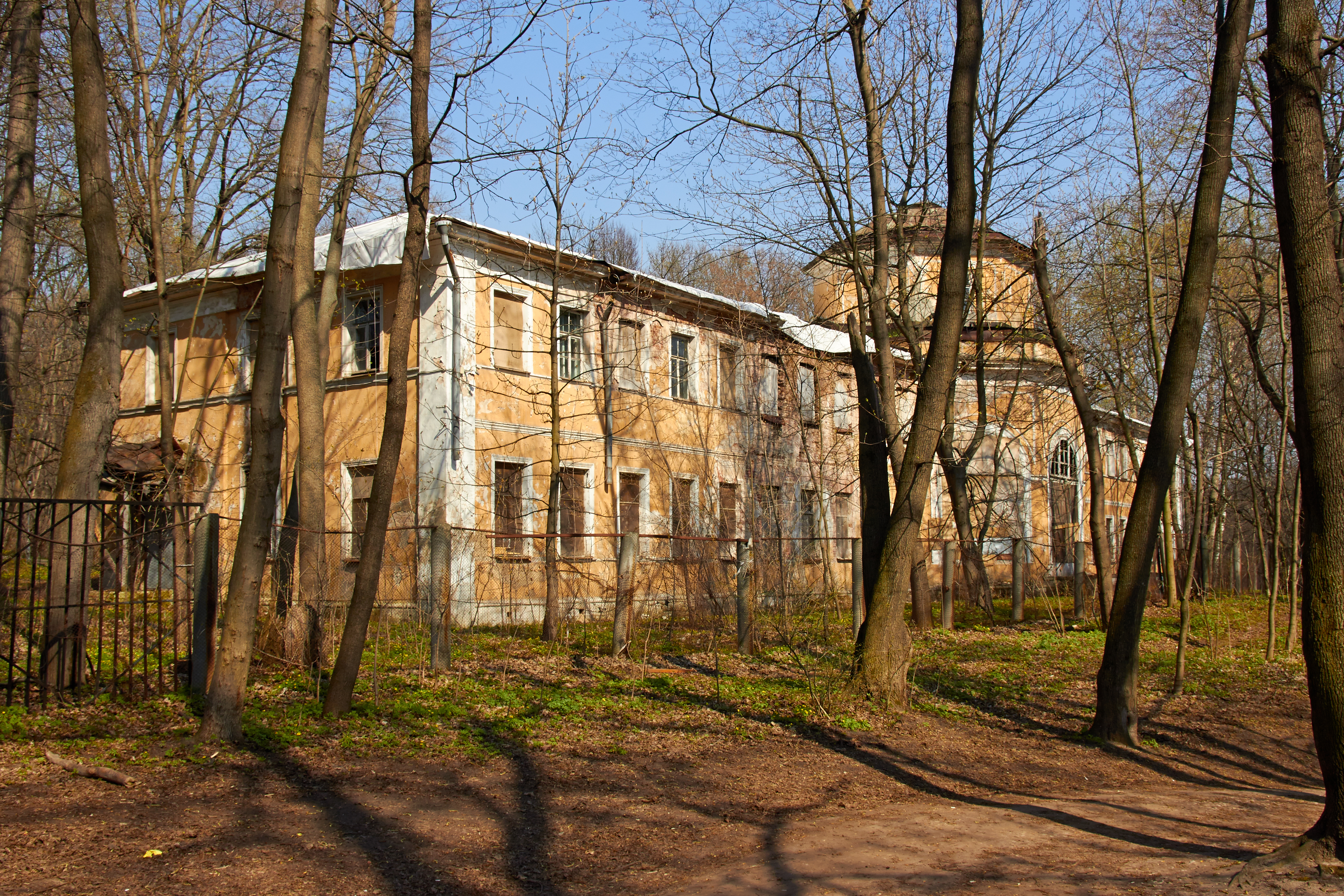 greenhouse, Vlakhernskoye-Kuzminki, Moscow